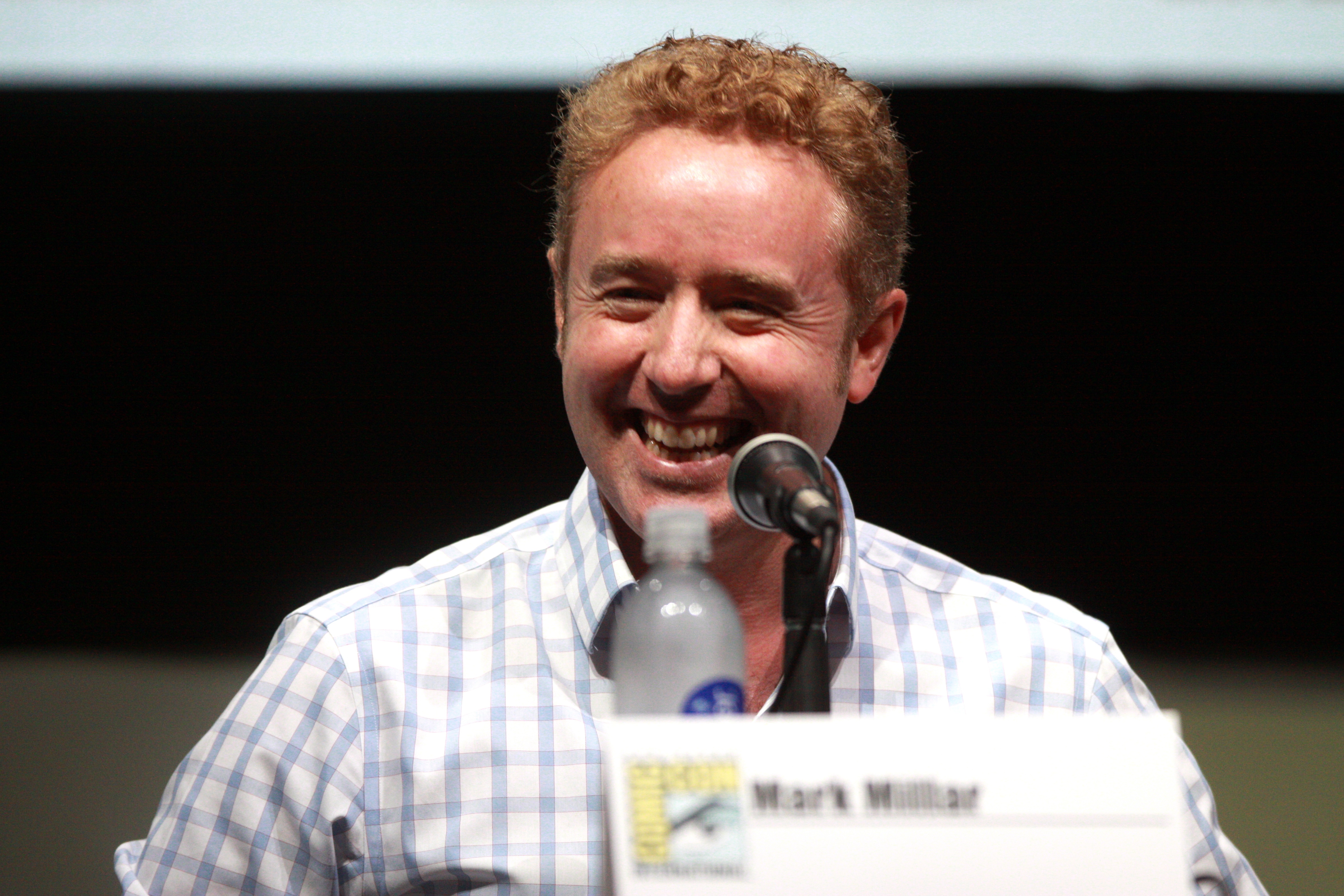 Mark Millar speaking at the 2013 San Diego Comic Con International, for "Kick-Ass 2", at the San Diego Convention Center in San Diego, California.